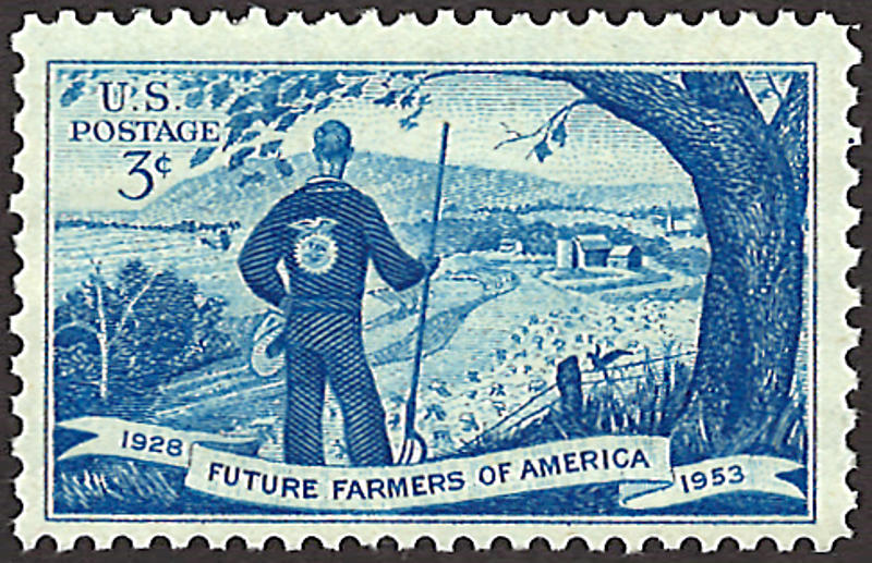 Future Farmers of America Issue - October 13, 1953 115,244,600 issued - Commemorative 25th anniversary Future Farmers of America U.S. Postage Stamp - Designer: R. L. Miller - Engraver: A. W. Dintaman